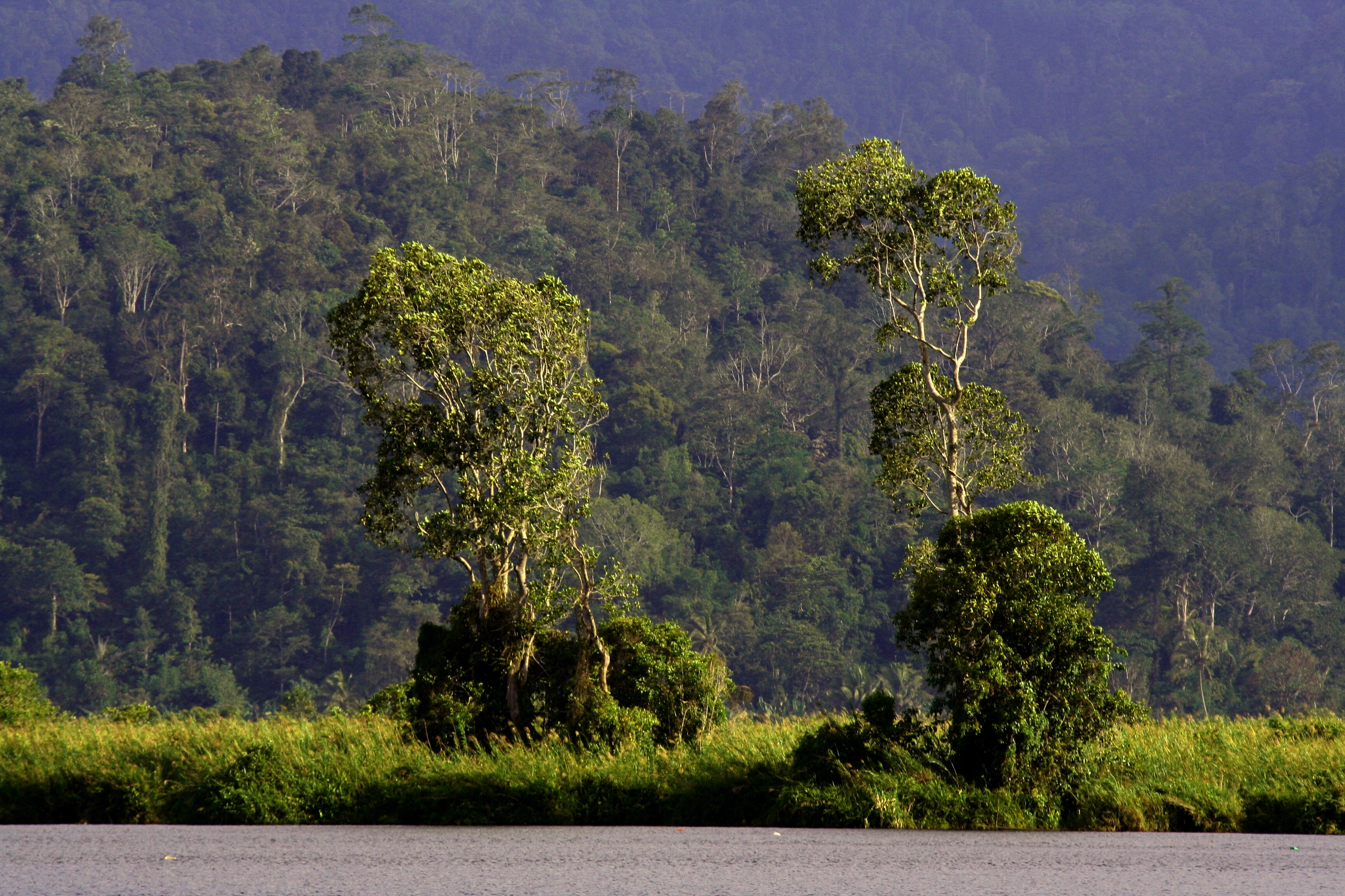 Isolated trees at the edge of Danau Lindu, in Lore Lindu National Park, Central SulawesiBahasa Indonesia: Pohon-pohon terpisah di tepi Danau Lindu, Taman Nasional Lore Lindu, Sulawesi Tengah